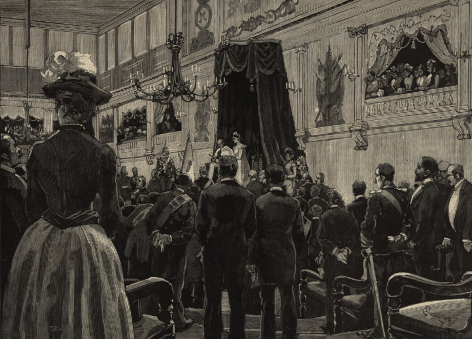 The Acclamation (enthroning ceremony) of King Carlos I of Portugal in the Room of the Courts, St. Benedict's Palace (December, 1899).